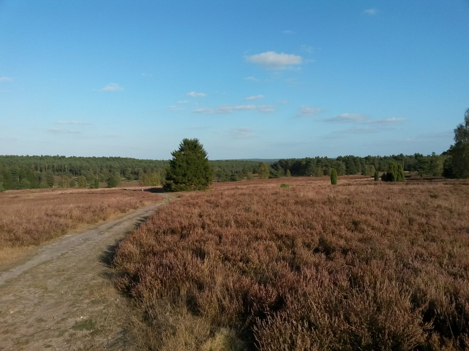 Büsenbachtal at Wörme